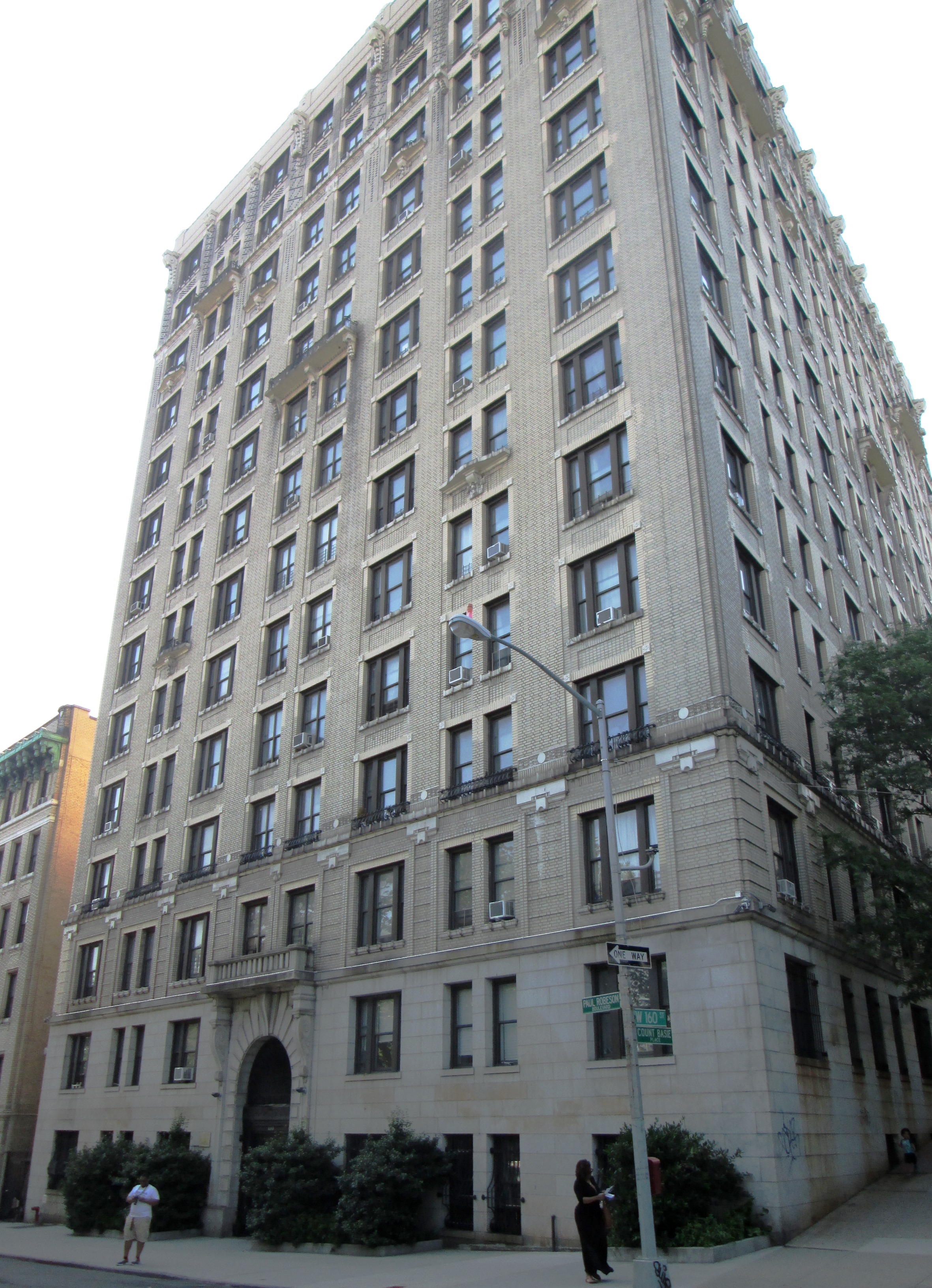 555 Edgecombe Avenue, located at the corner of West 160th Street in the Washington Heights neighborhood of Manhattan,new York City, was originally knoen as the "Roger Morris" when it was built in 1914-16 to designs by Schwartz & Gross. At the time, apartments were only rented to whites, but as the neighborhood changed, it became almost exclusively African-Americans. A number of notable people lived in the building, including Count Basie, Canada Lee, Joe Louis Kenneth Clark and Paul Robeson (Edgecombe Avenue is co-named "Paul Robeson Boulevard"} (Sources: Guide to NYC Landmarks (4th ed.) and AIA Guide to NYC (5th ed.))